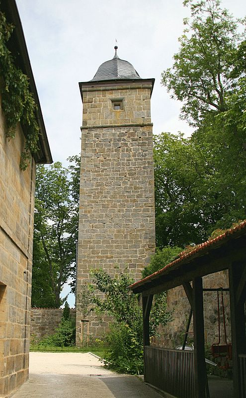 Ebern (Landkreis Haßberge, Lower Franconia, Germany). The "Diebsturm" (Thieves tower) of the fortification